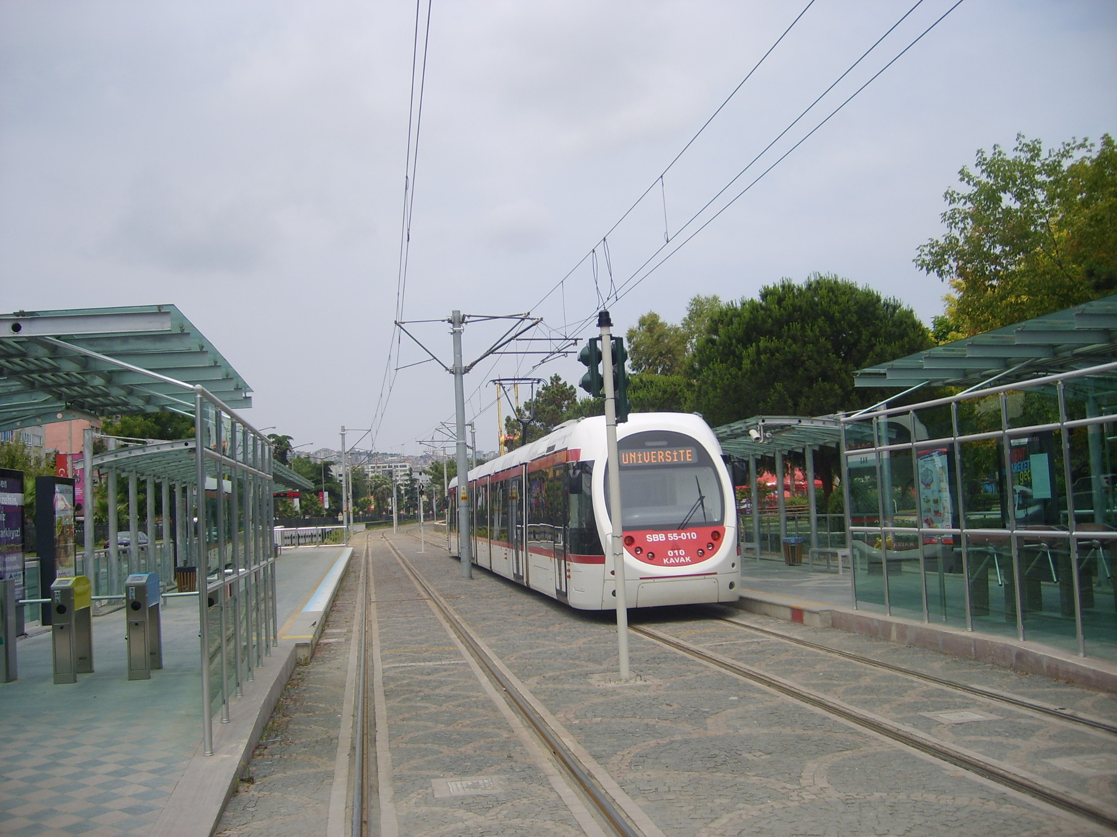 Tram at a terminus Gara (train station) in Samsun, Turkey